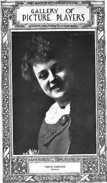 Actress Vedah Bertrand, ca. 1912